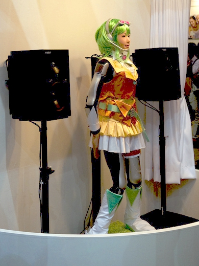 Vocaloid + HRP-4C Miim collaboration, Yamaha booth, CEATEC JAPAN 2009